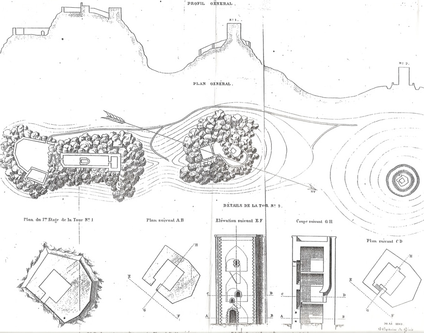 Ancien map (1863) of the castle known as "Torres de Cabrenç" ("Tours de Cabrenç" in French), in the comune of Serralongue (P.O., France)